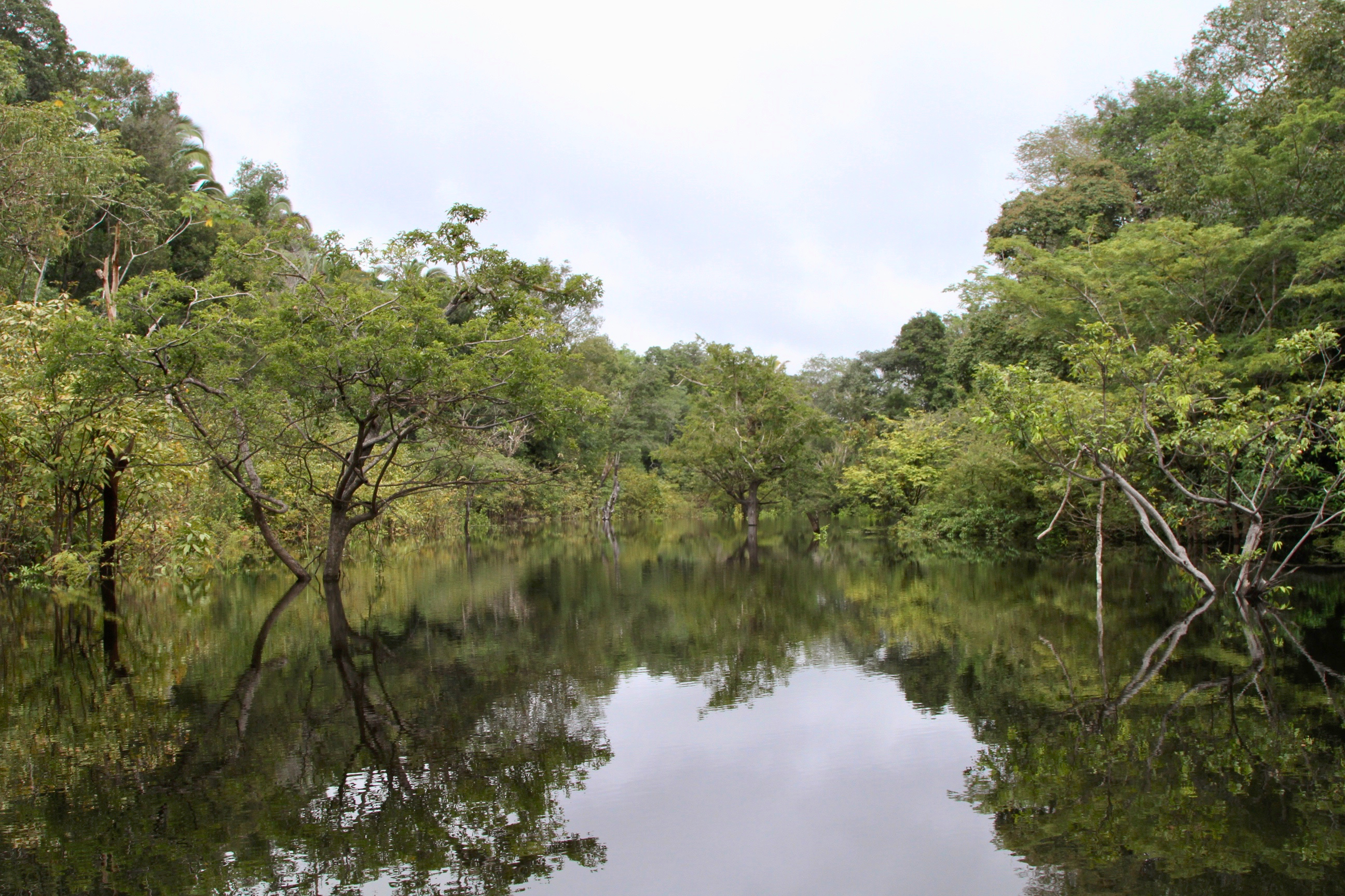 Juma River located in the municipality of Autazes, Amazonas, Brazil.